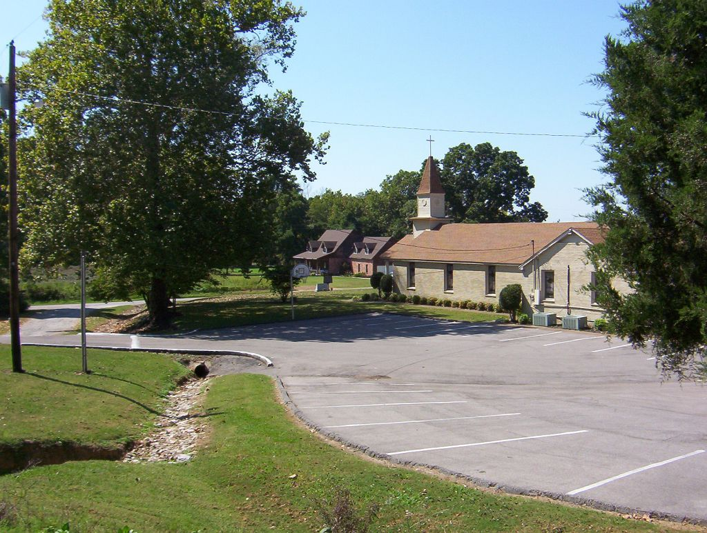 Randolph United Methodist Church in Randolph, Tennessee. I made the photo myself, feel free to use it.